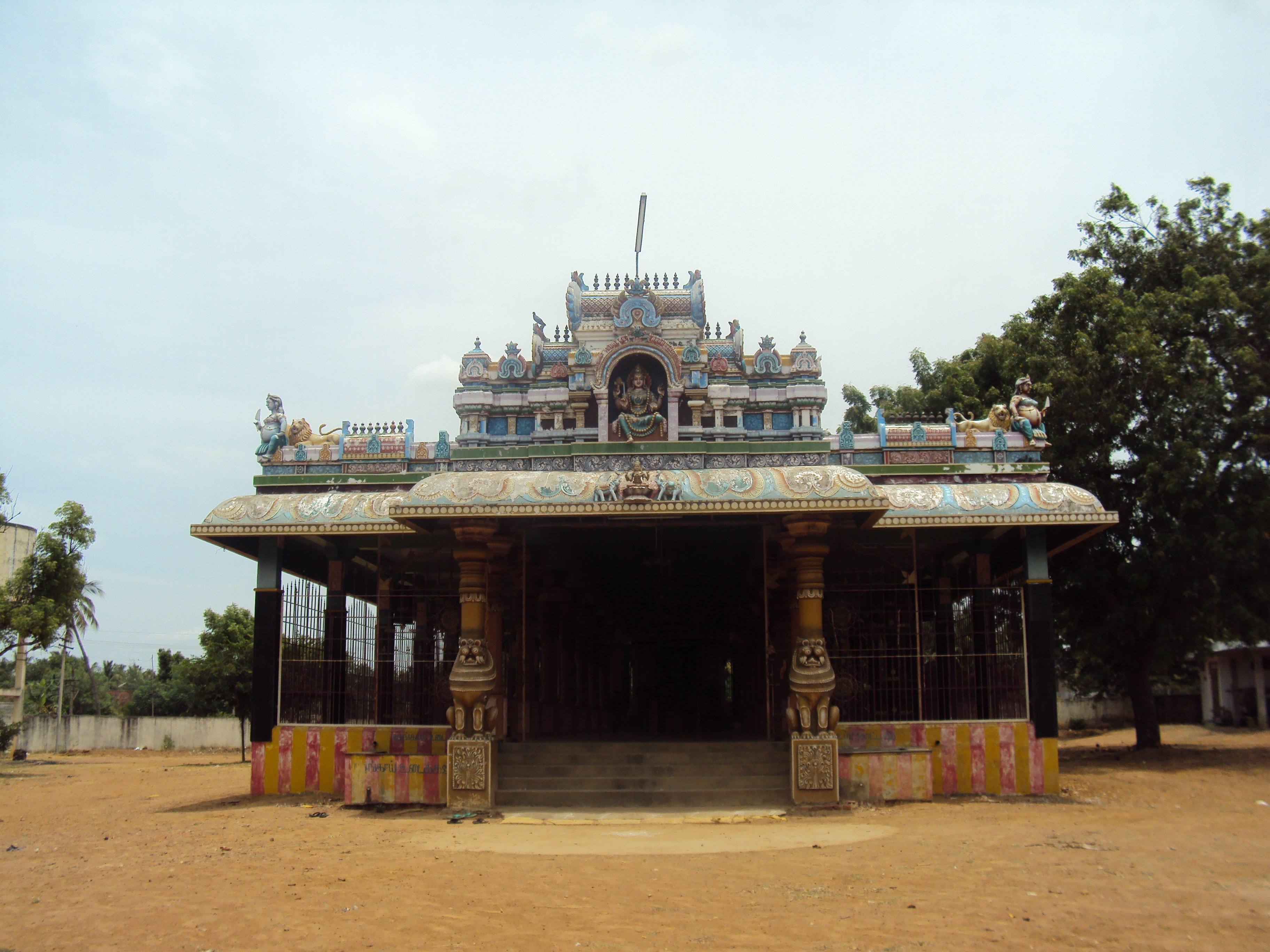 Arulmigu Kuzhanthayi Mariyamman Temple(Front view), அருள்மிகு குழந்ததாயி மாரியம்மன் கோவில்,உள்ளிக்கோட்டை- முகப்புத்தோற்றம்